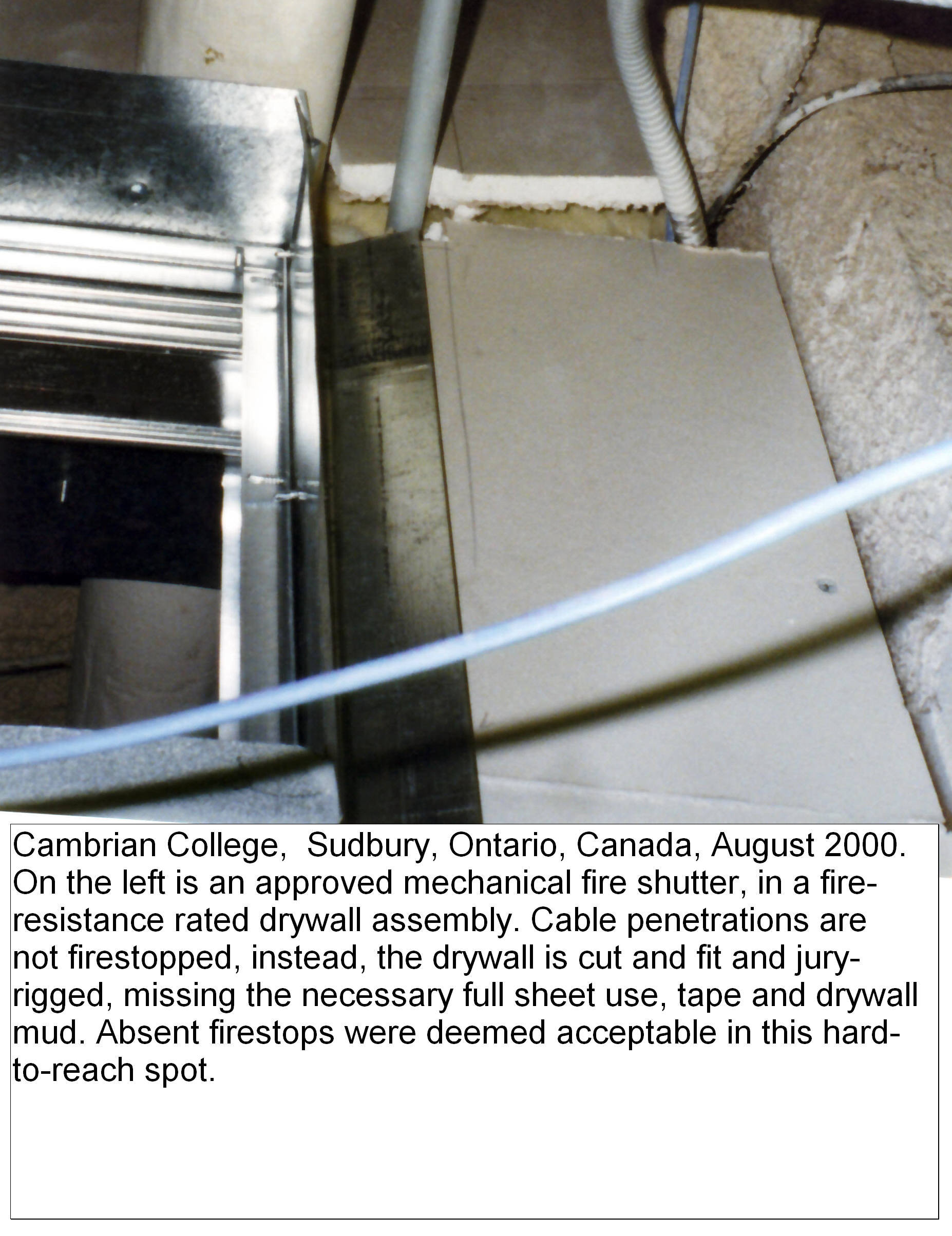 Drywall assembly required to have a fire-resistance rating, defeated by on site reality with absent firestops, mud and tape.